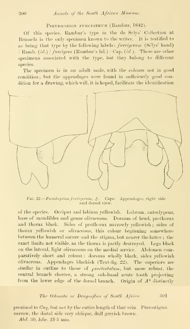 Description of the Palmiet sprite Pseudagrion furcigerum. In Ris, F. (1921). The Odonata or Dragonflies of South Africa. Annals South African Museum, XVIII, 245-452. Downloaded from